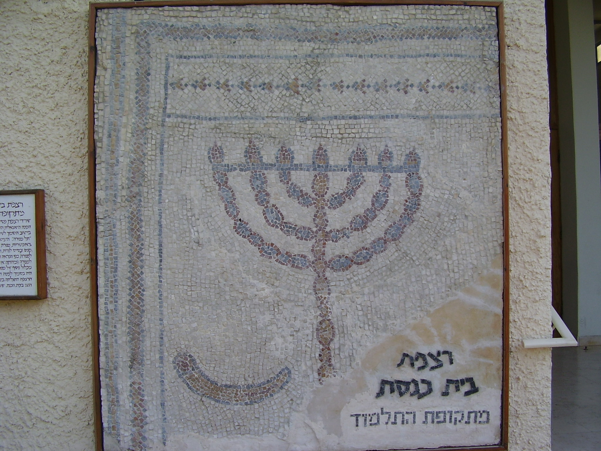 Mosaic floor from an ancient synagogue of talmudic time in kibbutz Tirat Zvi רצפת בית כנסת מתקופת התלמוד